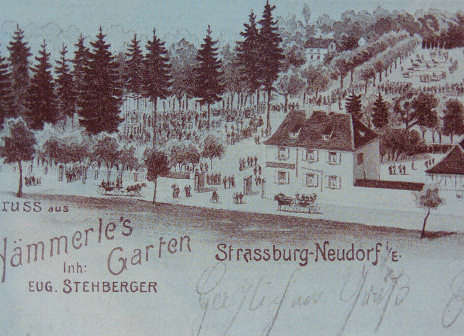 Postcard, unknown Year, approximately 1910. Title: "Hämmerle's Garten".